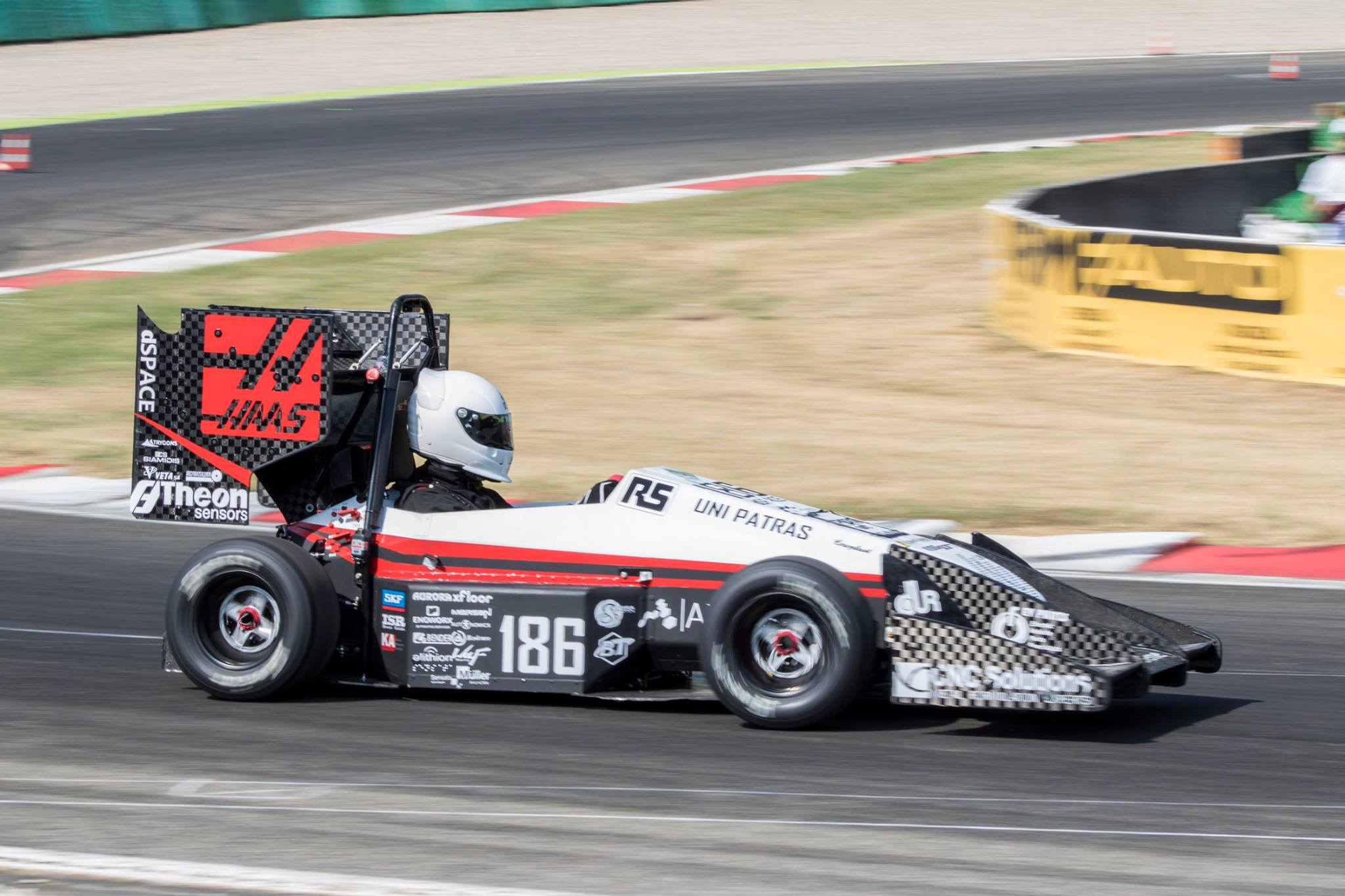 UoP5e at the endurance event of Formula ATA Italy 2016